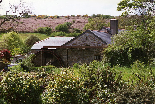 Madron: New Mill. The mill now forms part of a private residence but retains a kiln once used for drying oats. There were formerly two overshot waterwheels here; the second wheel went to Zennor Museum, apparently